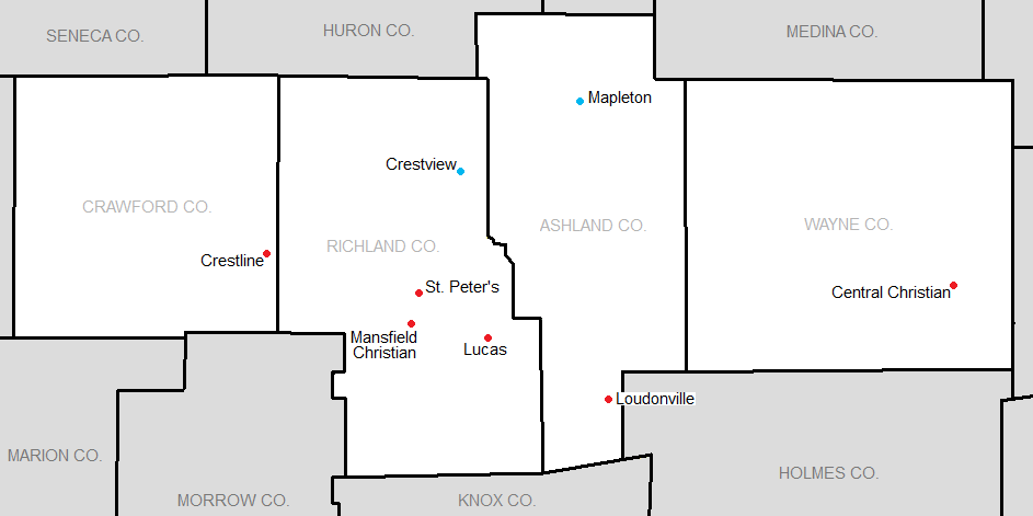 Map of current Mid-Buckeye members. Self-modified to show school locations.